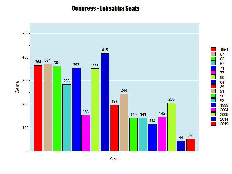 data upload karna acha kaam hai